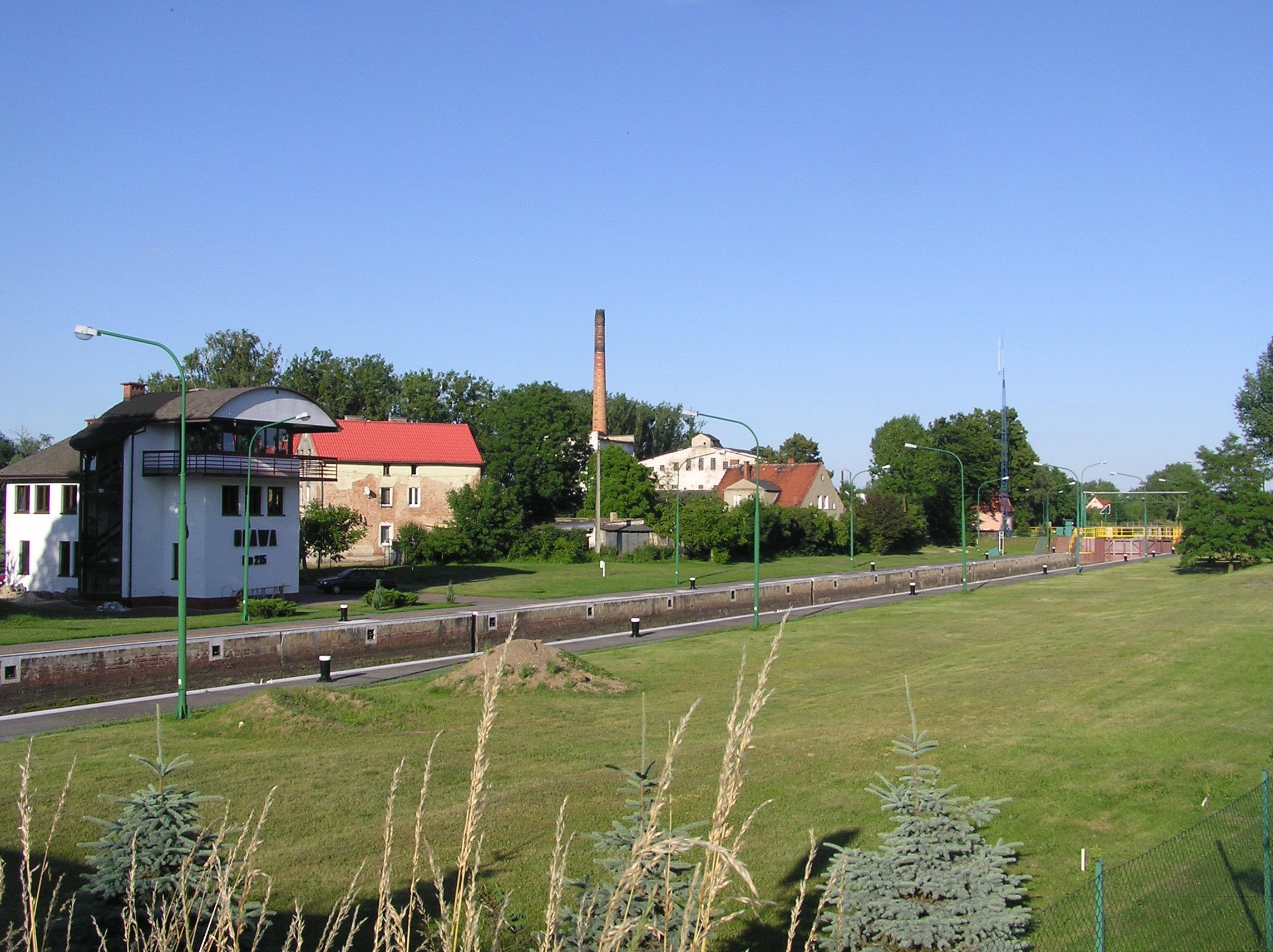 Oława II Lock